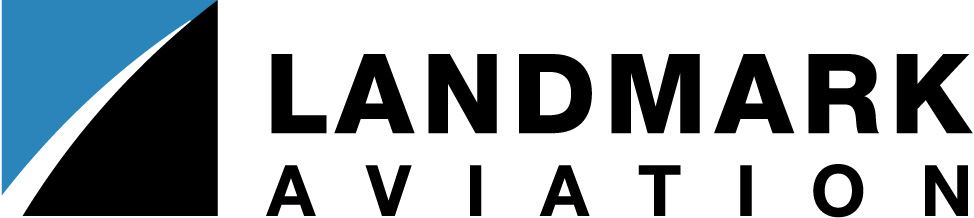 This is a logo for Landmark Aviation.